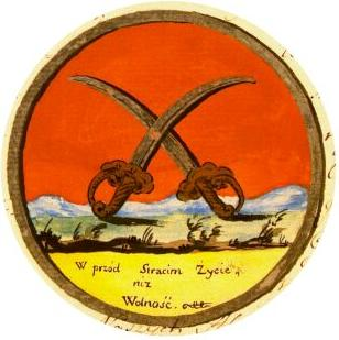 Coat of Arms of Ariogala city in 1792